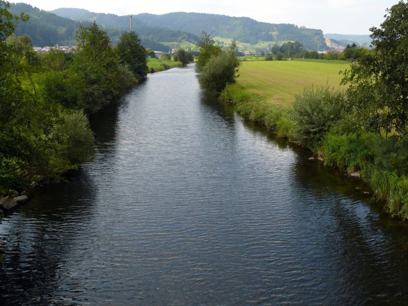 river kinzig running through the Black Forest valley